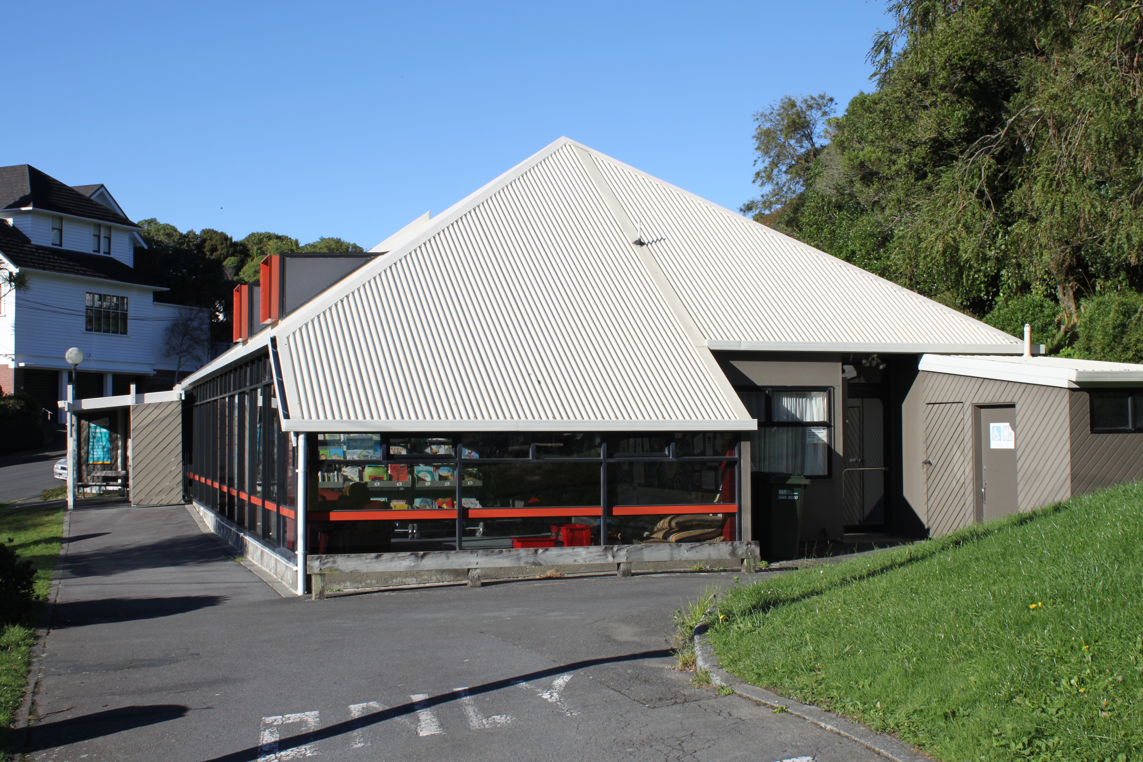 Library (a branch of the main Wellington City Library), in Lennel Road, Wadestown, Wellington, New Zealand